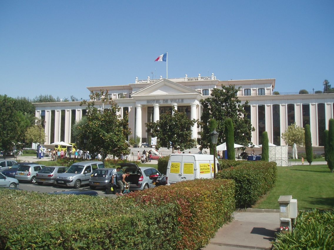 Town hall of Saint-Laurent-du-Var.